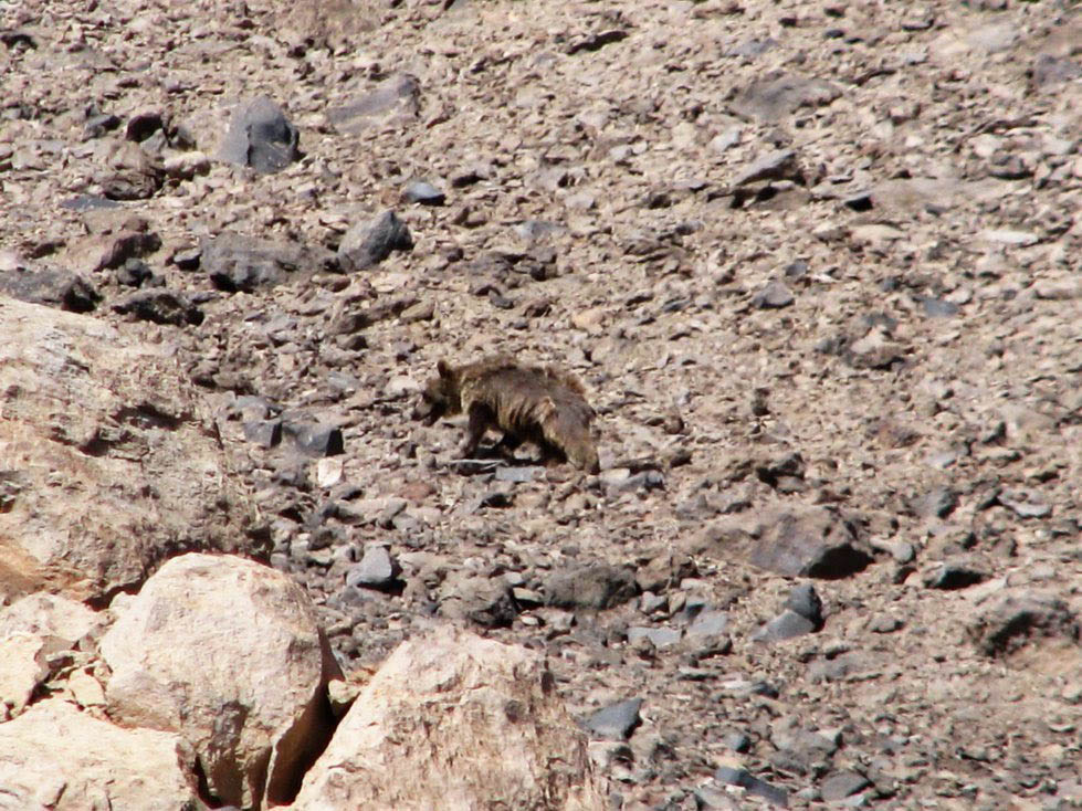 A syrian brown bear in Lar National Park, north east of Mount Damavand. This photo taken in height 4800m of Damavand mountains.